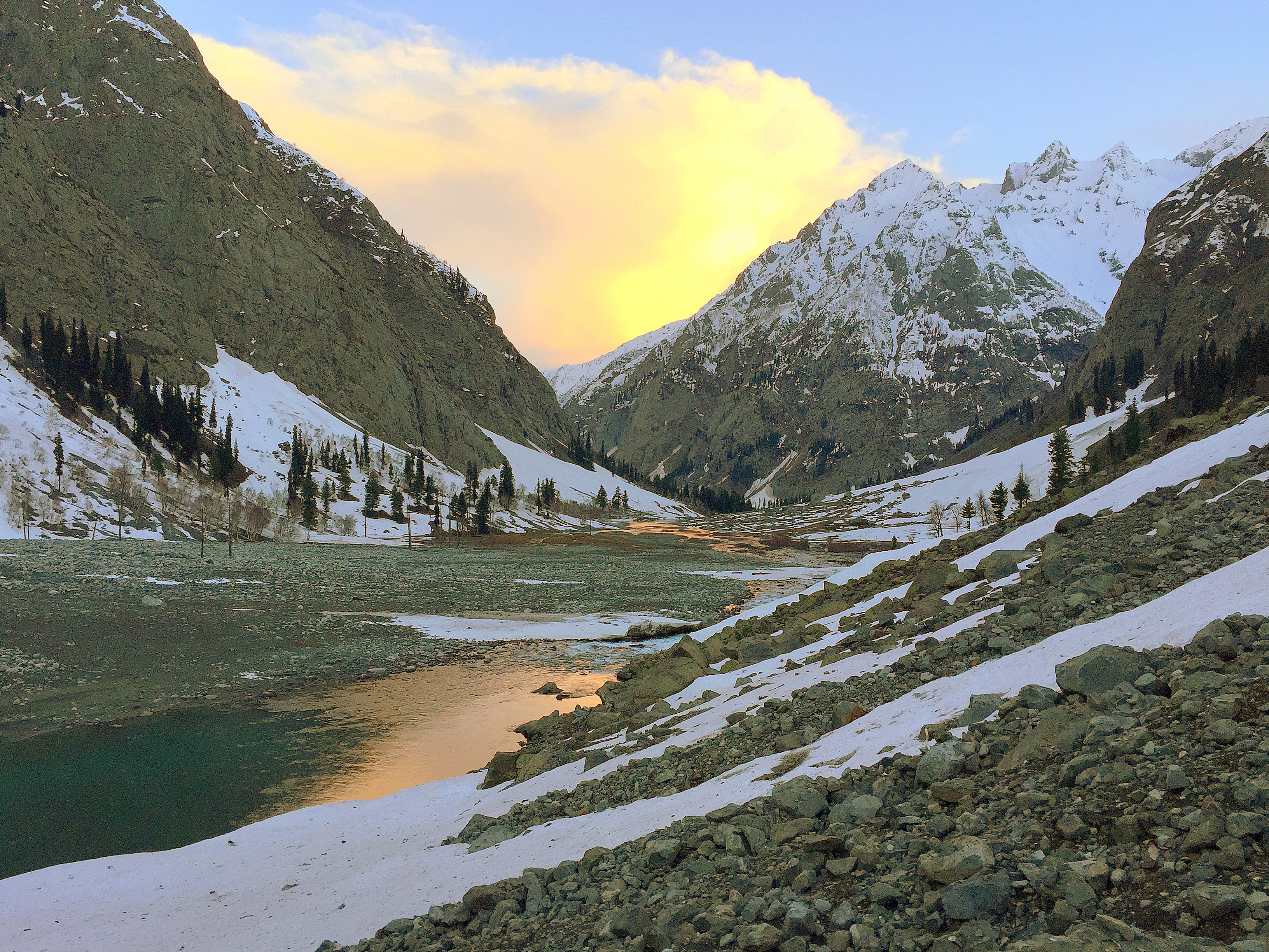 Gabral River, approaching Kharrkharr Lake, near Gabral, Swat District, KPK, Pakistan